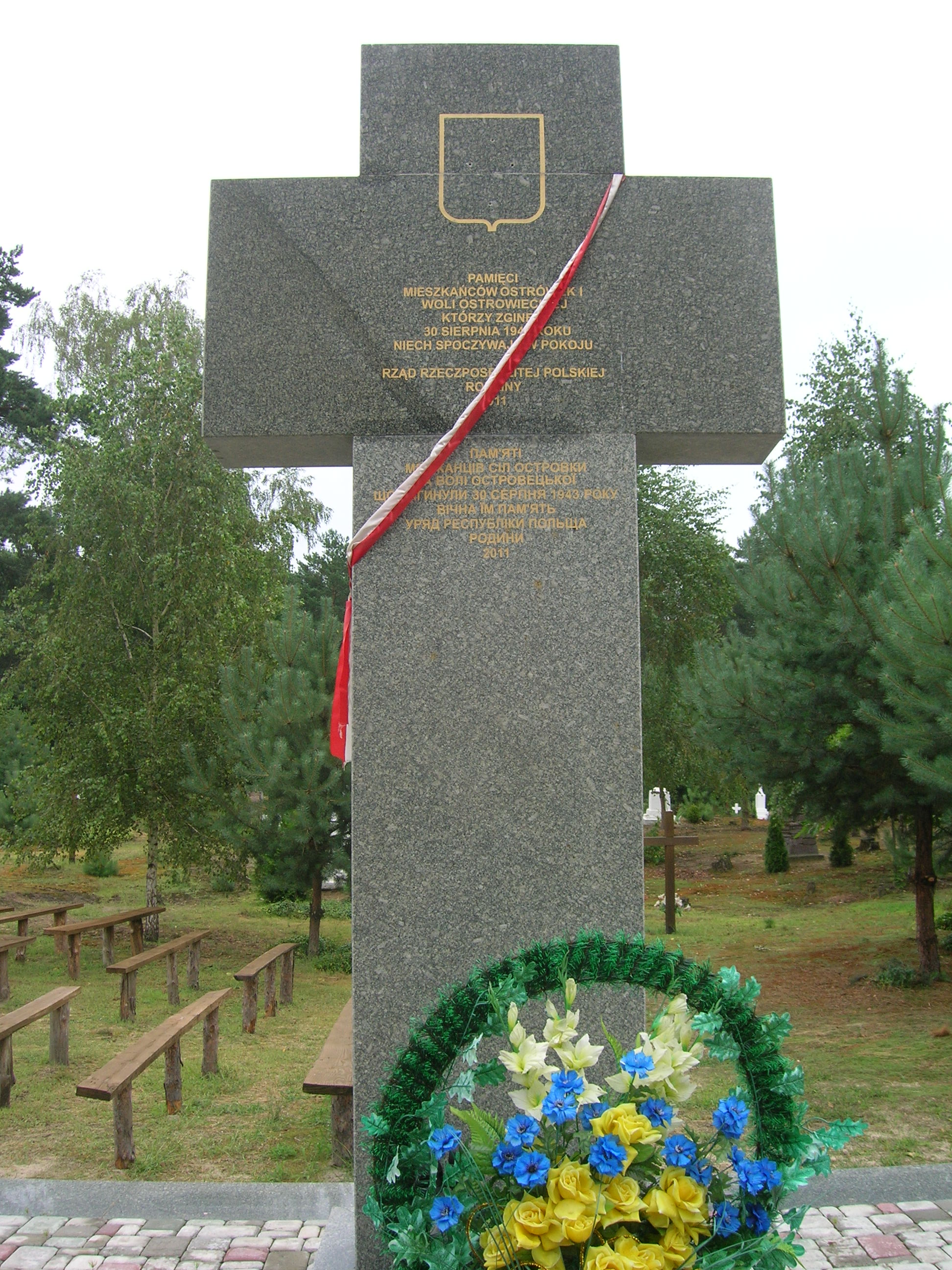 Monument in Ostrówki